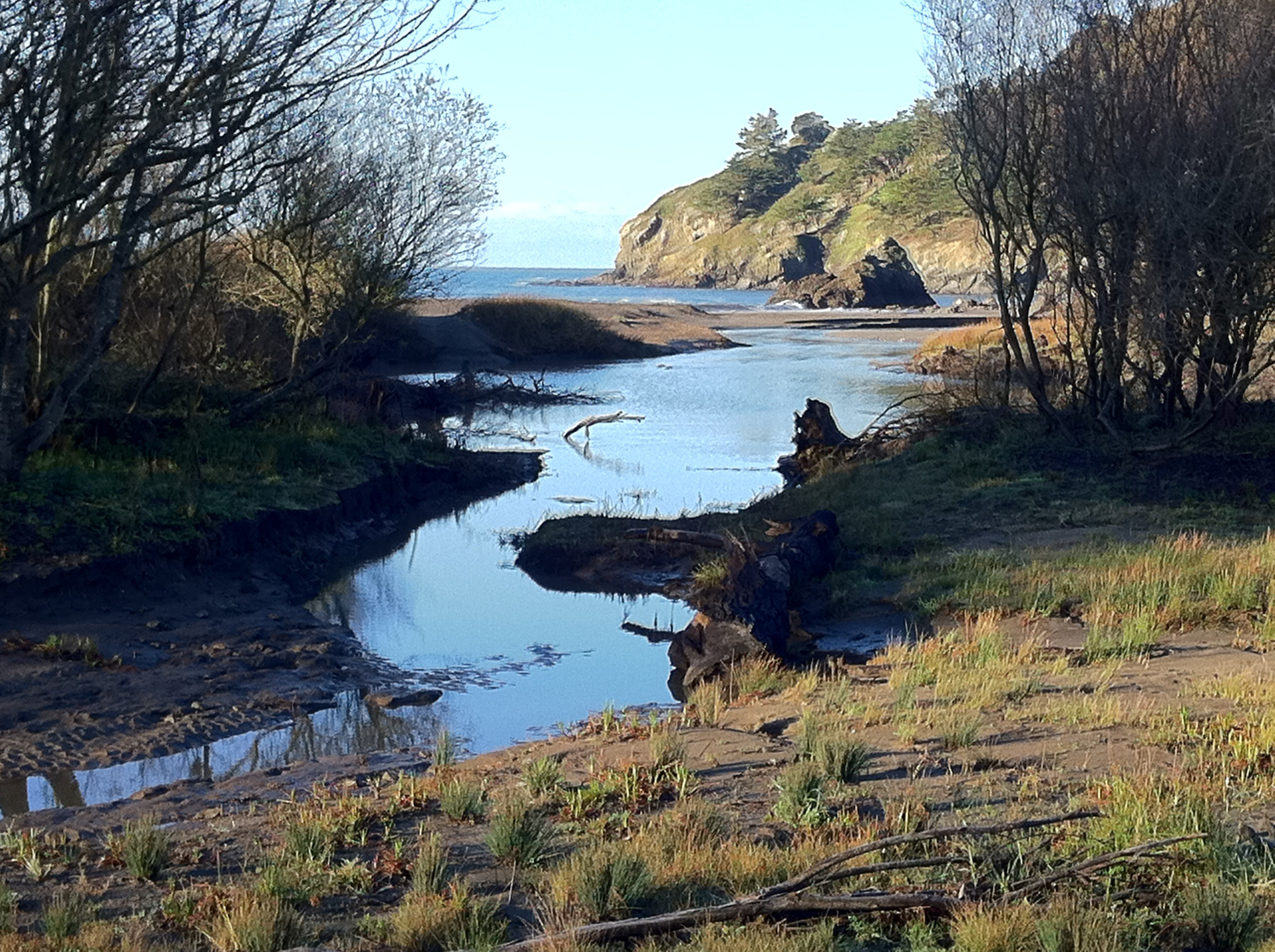 Redwood Creek at its mouth looking out over Muir Beach, Marin County, CA